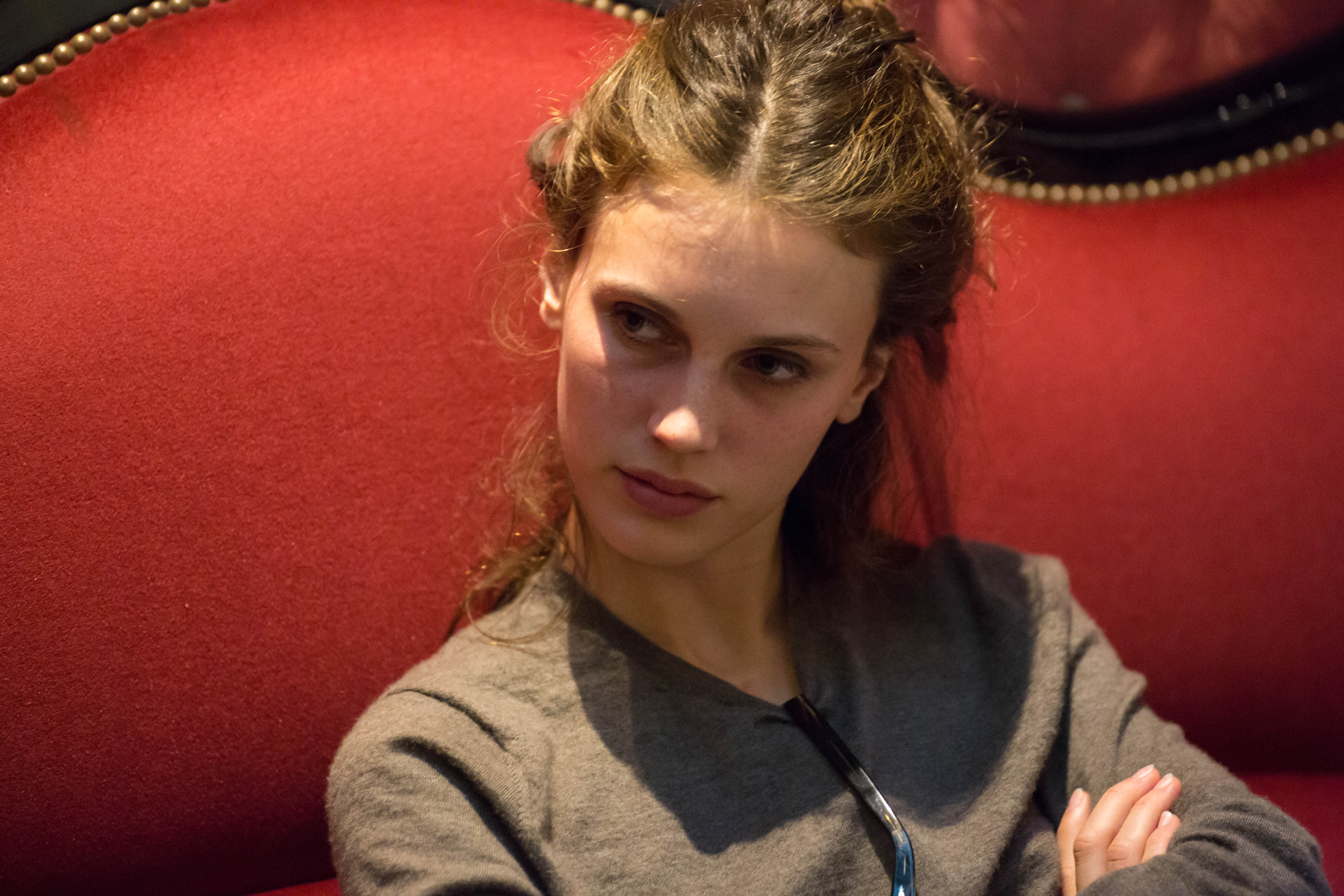 Marine Vacth at grand hotel opéra, Toulouse, France